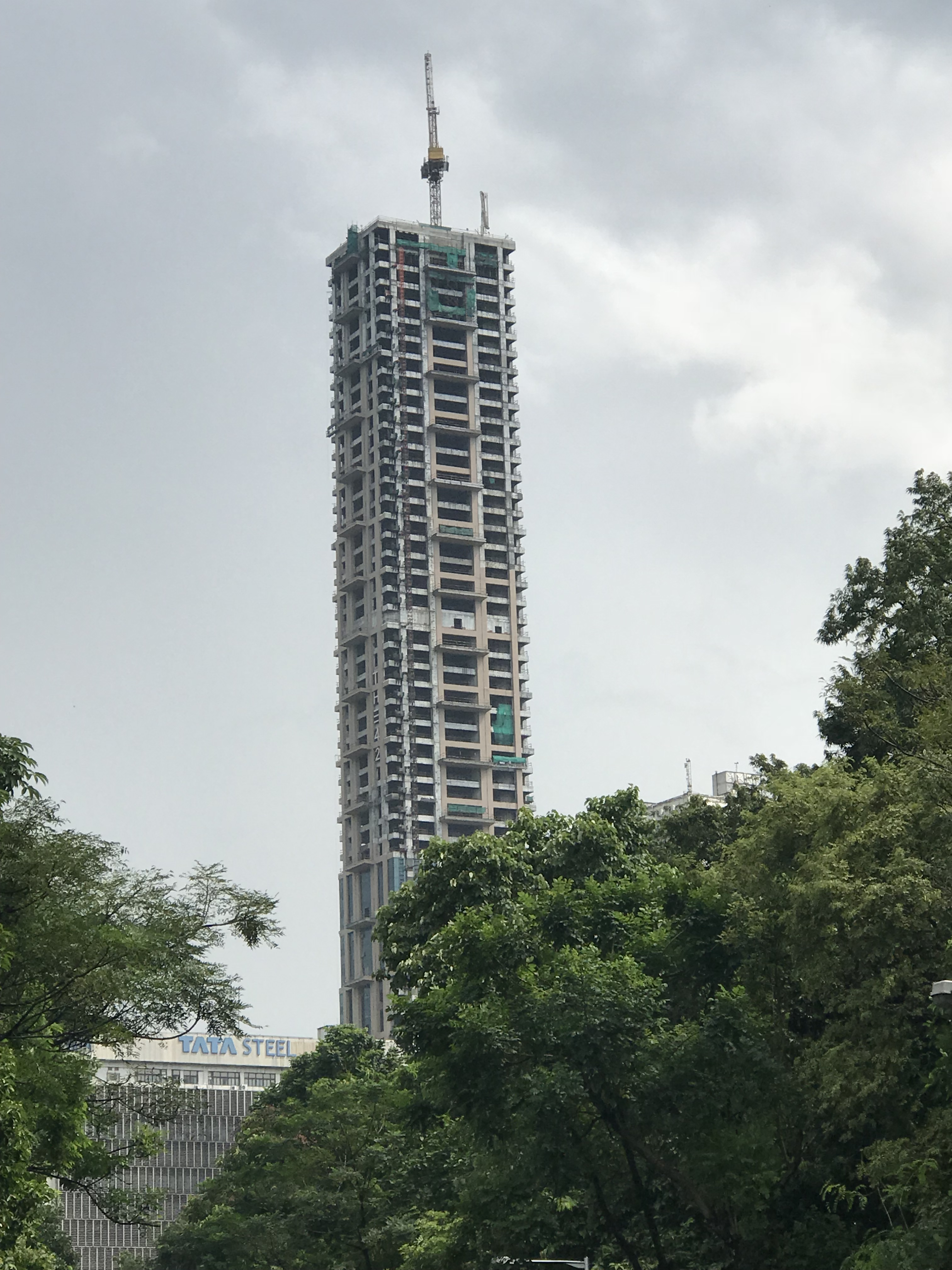 Luxury Residential Building 'The 42'is under construction on the Jawaharlal Nehru road, Kolkata, West Bengal.